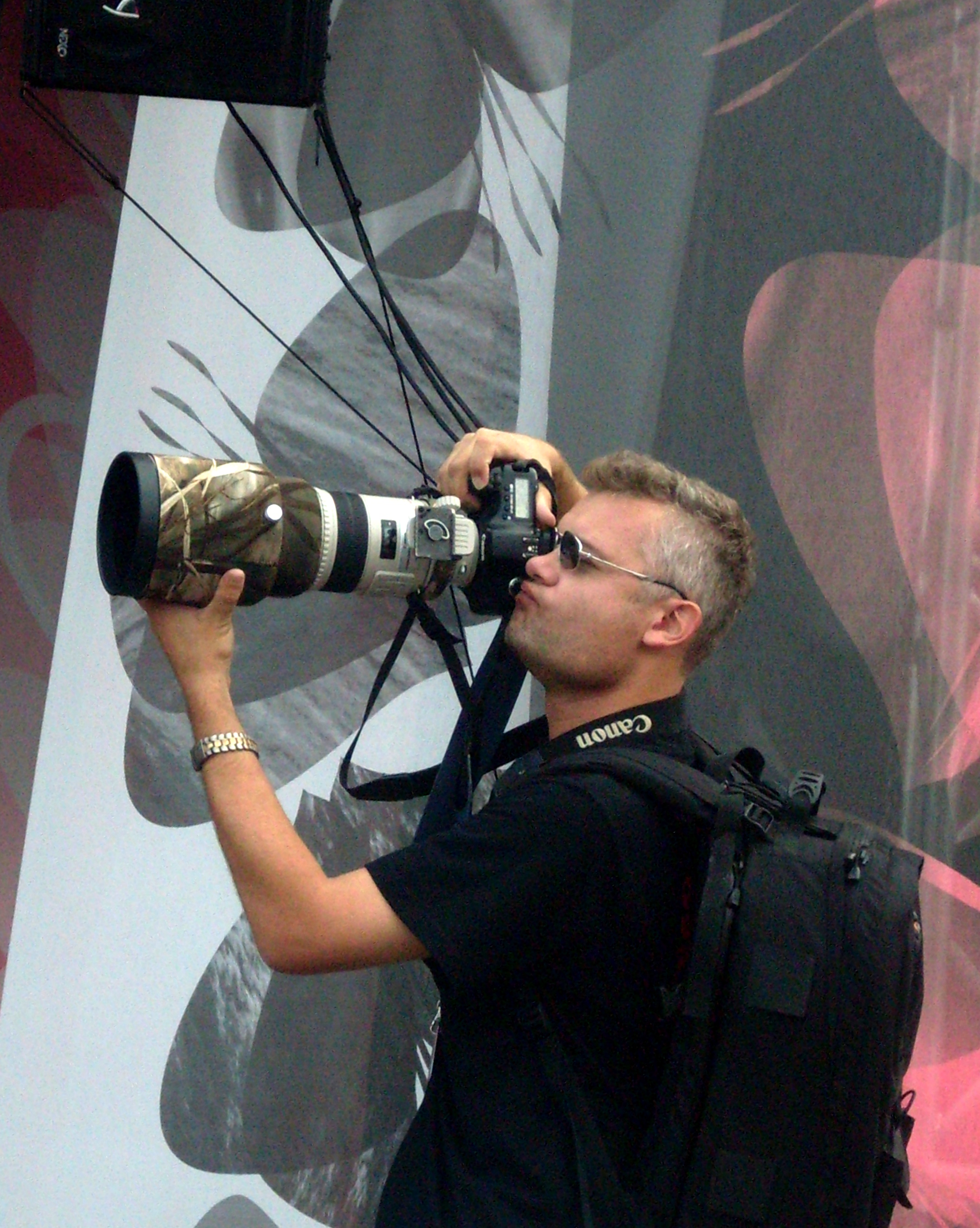 Press photographer with mammoth lens at III Meeting of Fans of the TV series 'M jak miłość' in Gdynia 2009. "M jak Miłość" in exact translations: "L as Love".